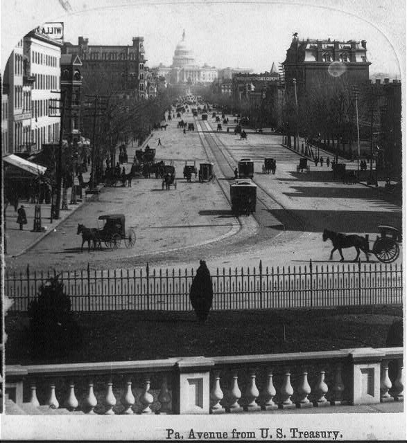 Pa. Avenue from U.S. Treasury, Washington, D.C. Stereograph showing horses and carriages; streetcars on Pennsylvania Avenue; U.S. Capitol in background, ca. 1880.